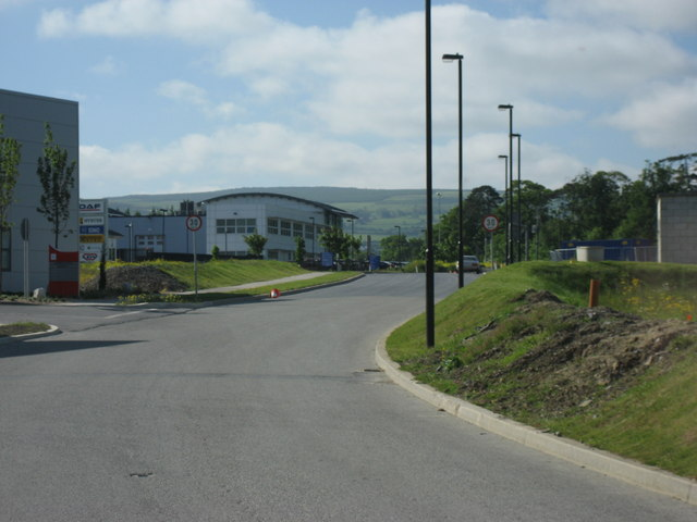 Baldonnel Industrial estate. Home of the DAF importers to Eire, among others.